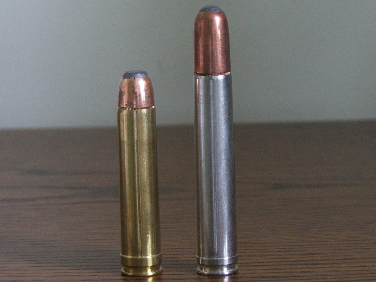 Picture of the .450 Marlin on the left, compared to the .458 Winchester Magnum on the right.